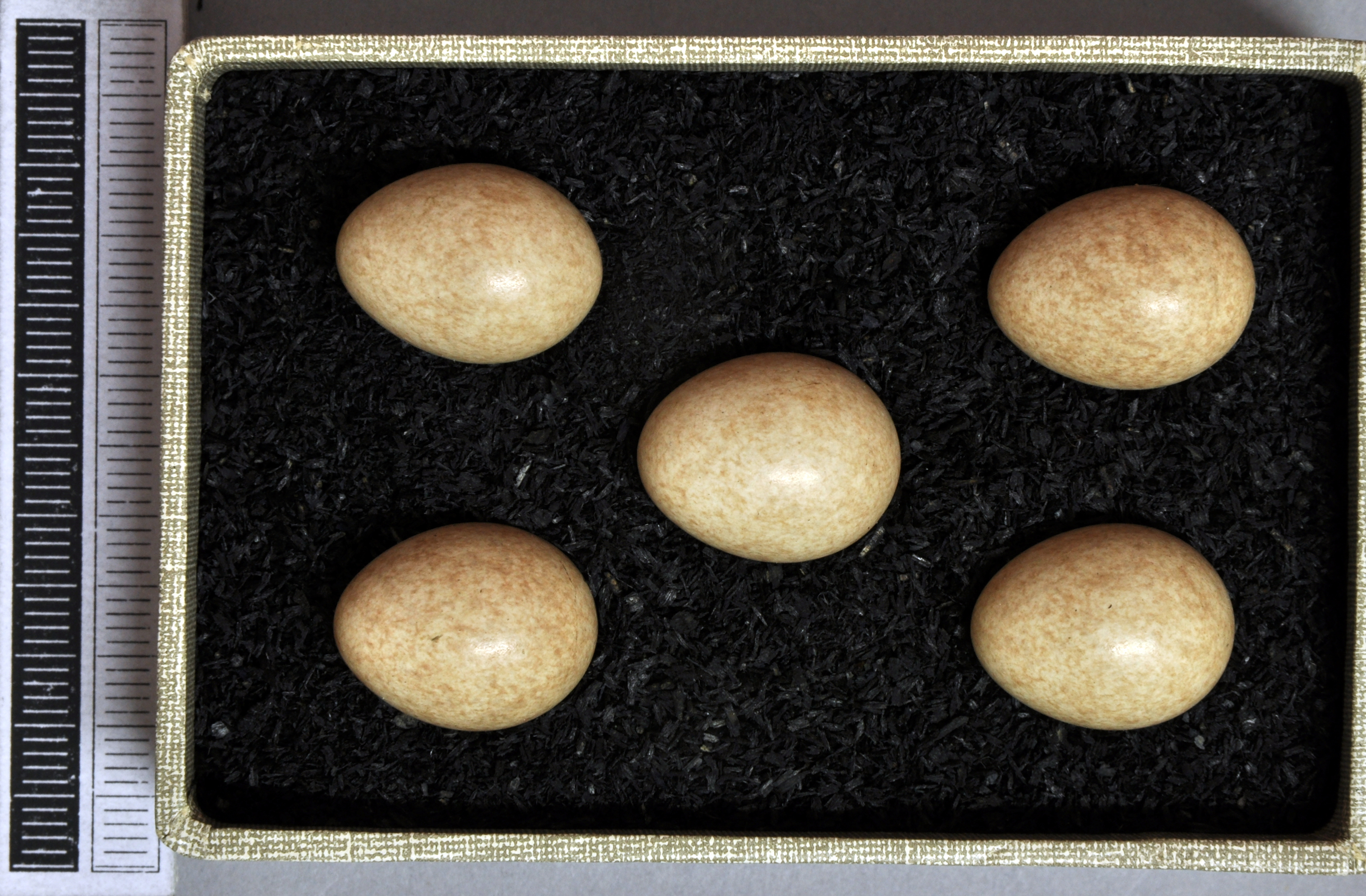 Grey wagtail Motacilla cinerea , egg, Coll. Museum Wiesbaden